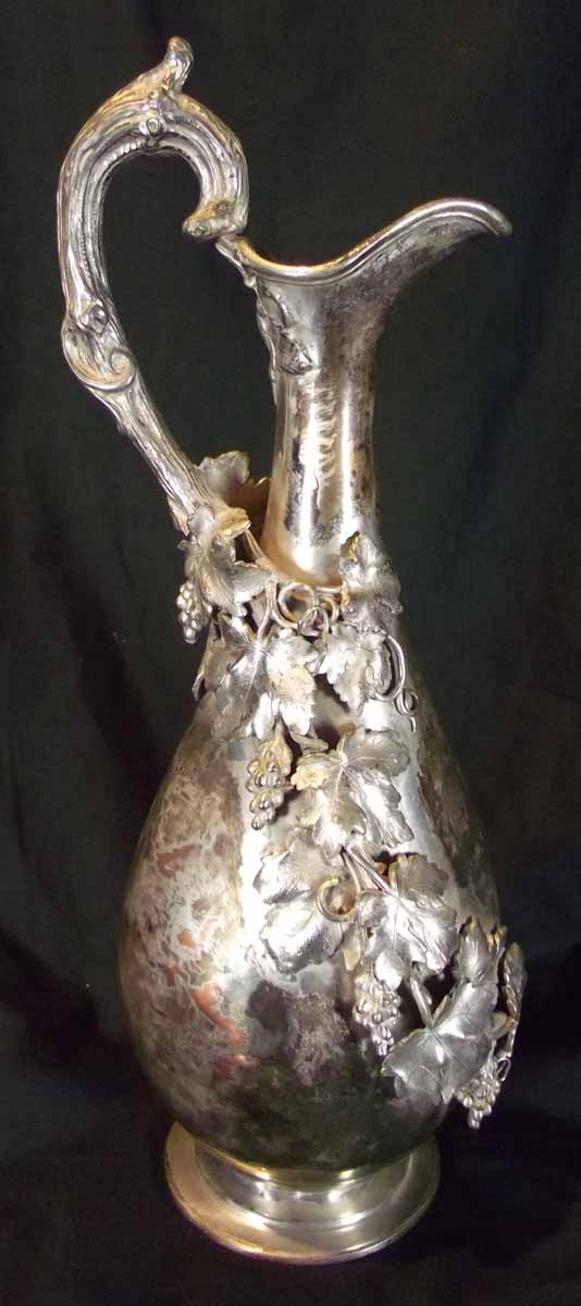 This claret jug was presented to Francis Pettit Smith in 1858 for his work on creating the screw propeller. It is in the collection of The Mariners' Museum in Newport News, VA.